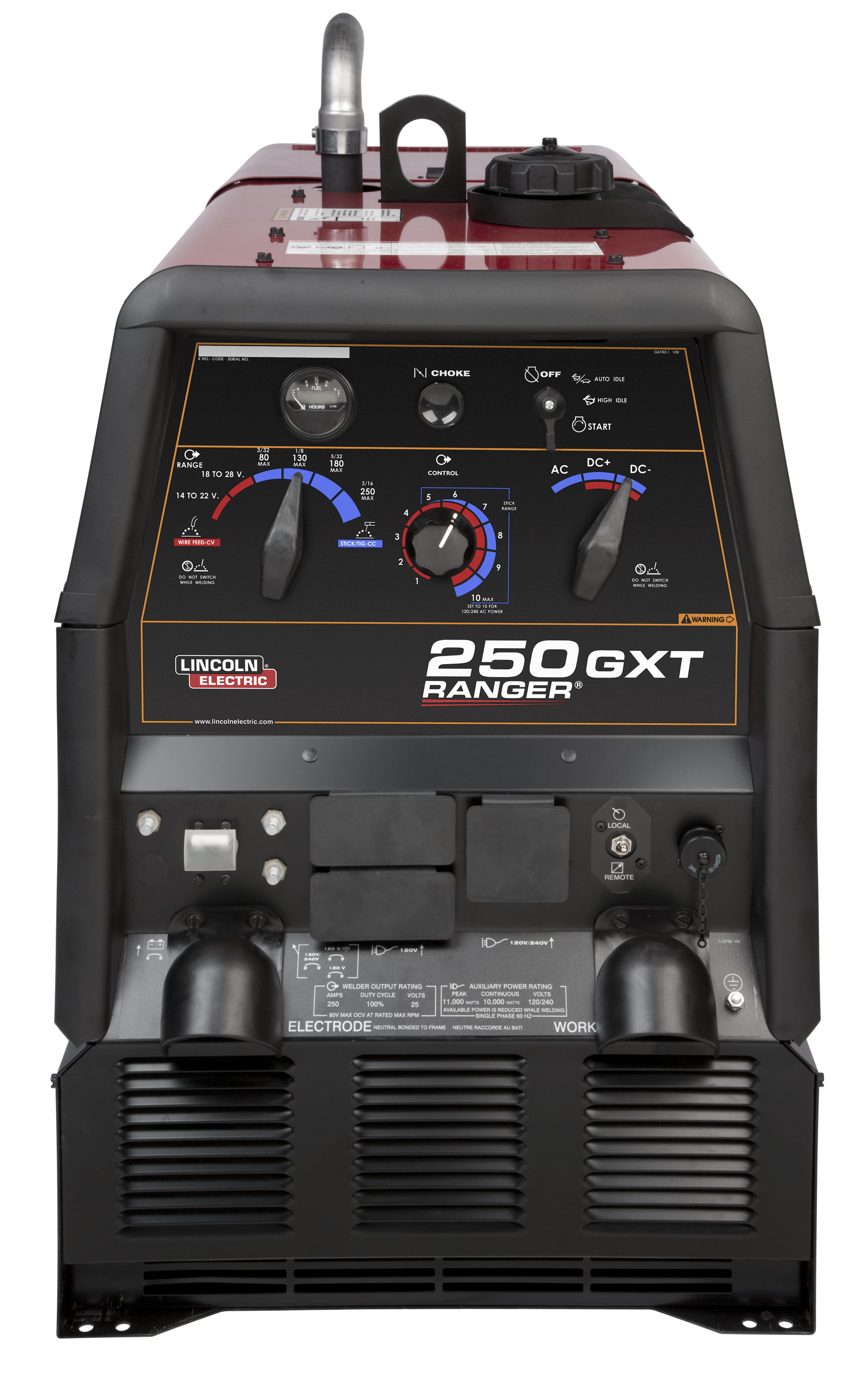 Engine driven Ranger® 250 GXT withElectric Fuel Pump. Capable of AC/DC welding, 11,000 Watts Peak Single-Phase AC Generator Power and 23 HP Gasoline Engine.